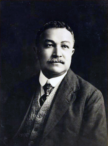 J. P. Braga, O.B.E., J.P. (1871 - 1944), Portuguese Unofficial Member of the Legislative Council of Hong Kong (1929 - 1937).